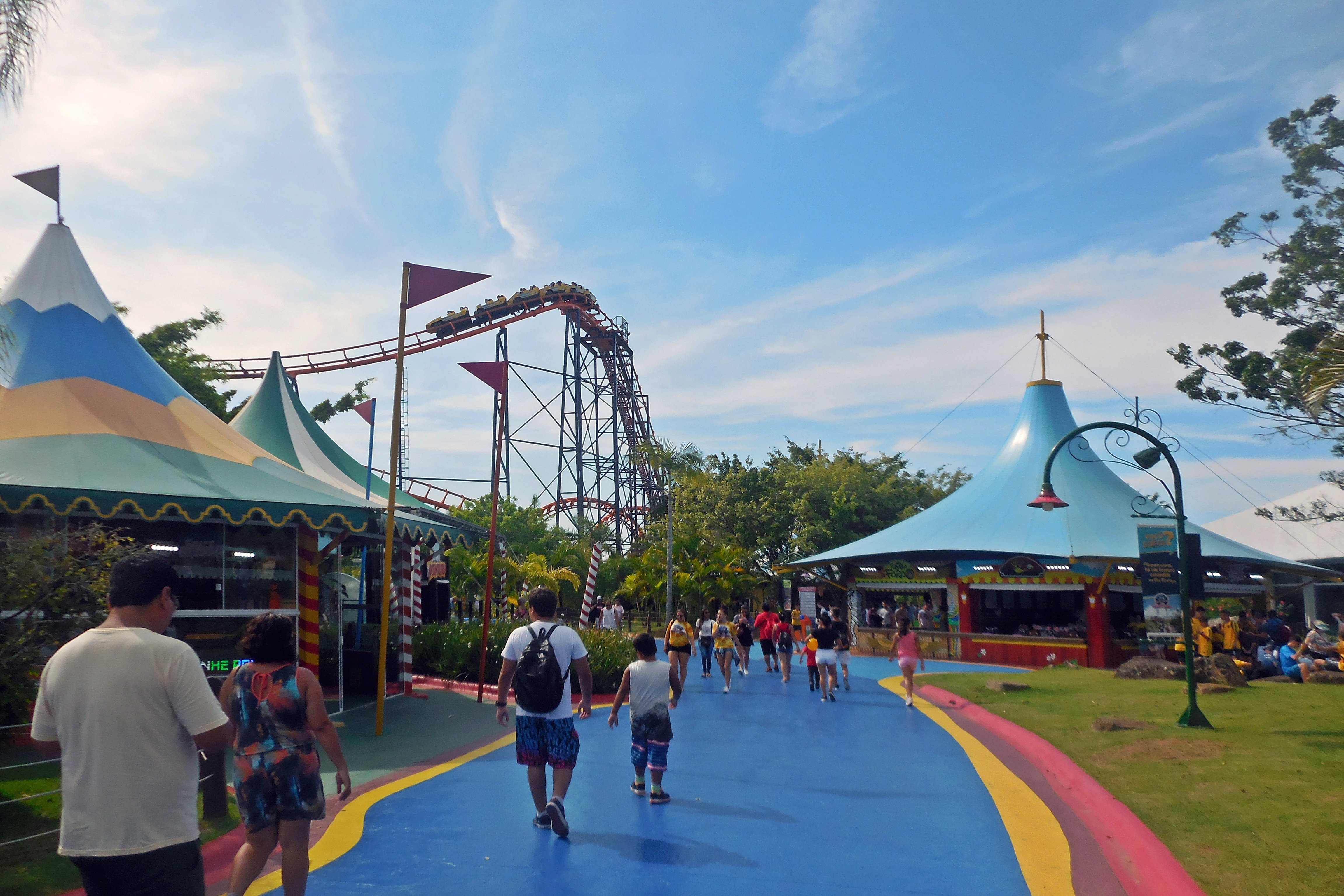 Interior of the Beto Carrero World with the Star Mountain roller coaster in the background, in Penha, Santa Catarina, Brazil.